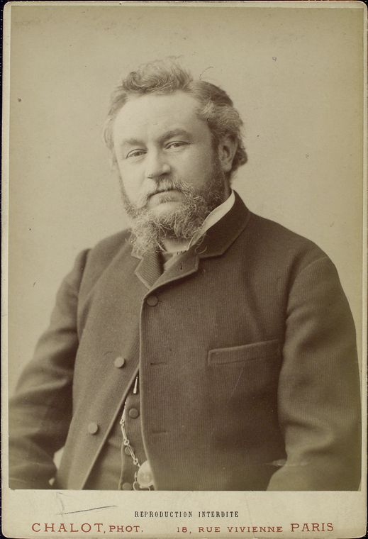 Emile Bergerat, French writer, early in his career